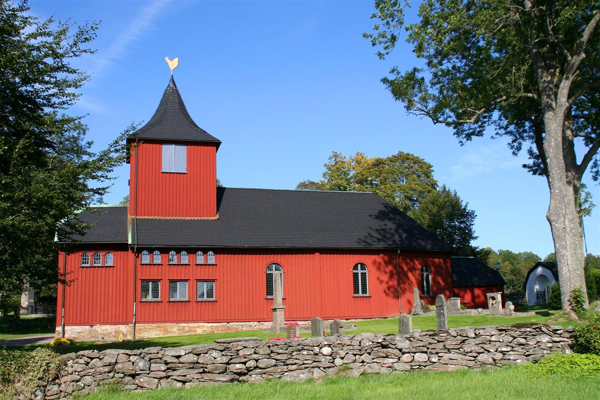 Råda Church